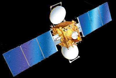 Insat 3e TV-Space station with fully extended solar panels for Broadcasting-satellite service.